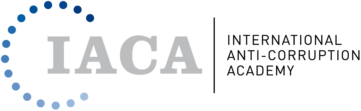 IACA Logo